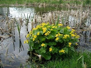 Caltha palustris